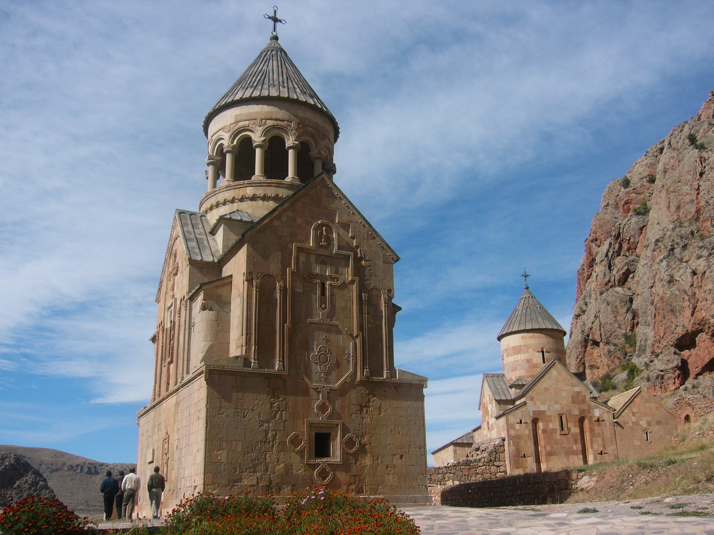 St. Astvatsatsin (Holy Mother of God) two-storey church with St. Karapet church and St. Gregory's chapel to the right.